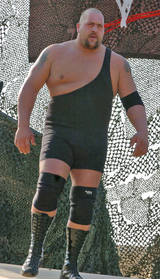 World Wrestling Entertainment (WWE) Smackdown visits the Soldiers of 1st Infantry Division in Iraq. WWE visited several Forward Operating Bases during their three day visit. They ended with a Tribute to the Troops show in Tikrit, Iraq.